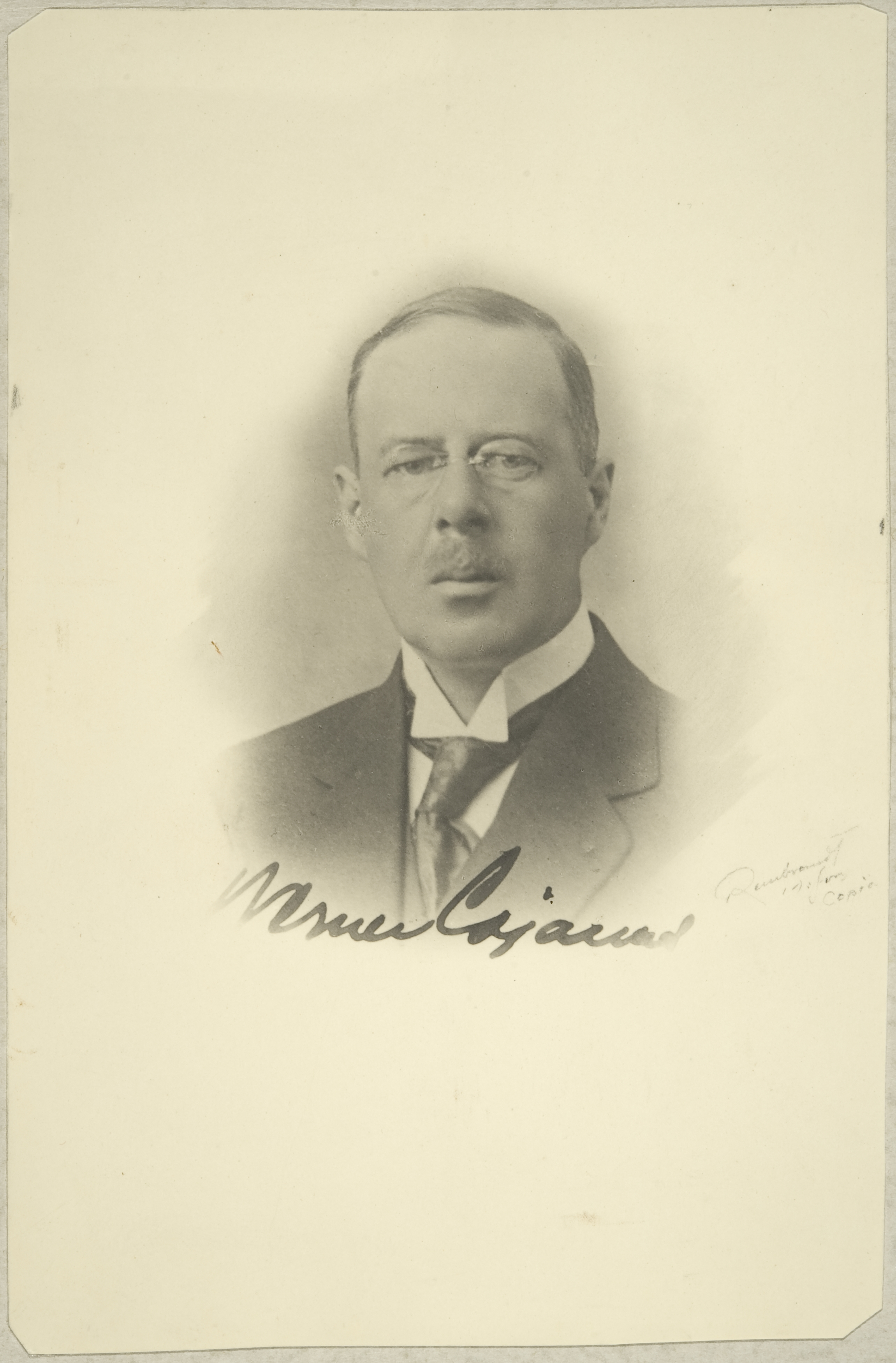 Photograph of the Finnish diplomat and forester Werner Cajanus (1878–1919).